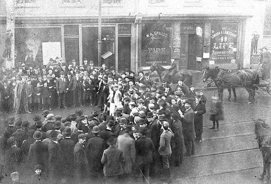 Start of the first “Around the Bay Road Race” on December 25, 1894